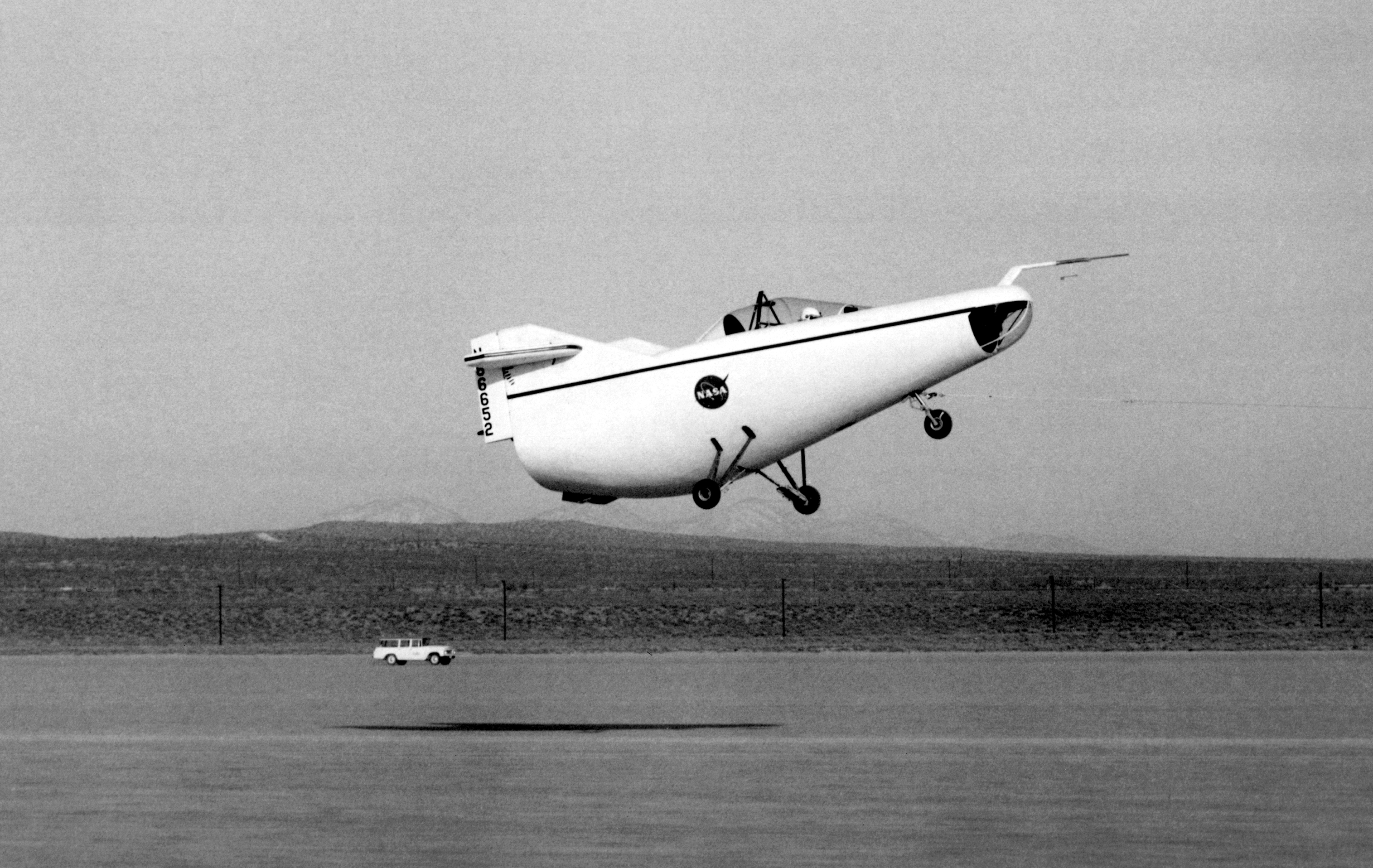 The M2-F1 shown in flight during a low-speed car tow runs across the lakebed. Such tests allowed about two minutes to test the vehicle's handling in flight. NASA Flight Research Center (later redesignated the Dryden Flight Research Center) personnel conducted as many as 8 to 14 ground-tow flights in a single day either to test the vehicle in preparation for air tows or to train pilots to fly the vehicle before they undertook air tows.